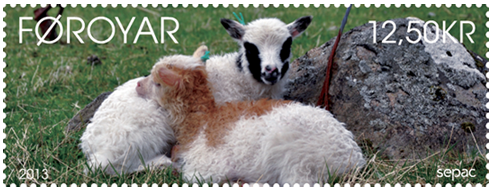 Stamp FO 759 of the Faroe Islands: Baby animals -lambs (Sepac 2013).